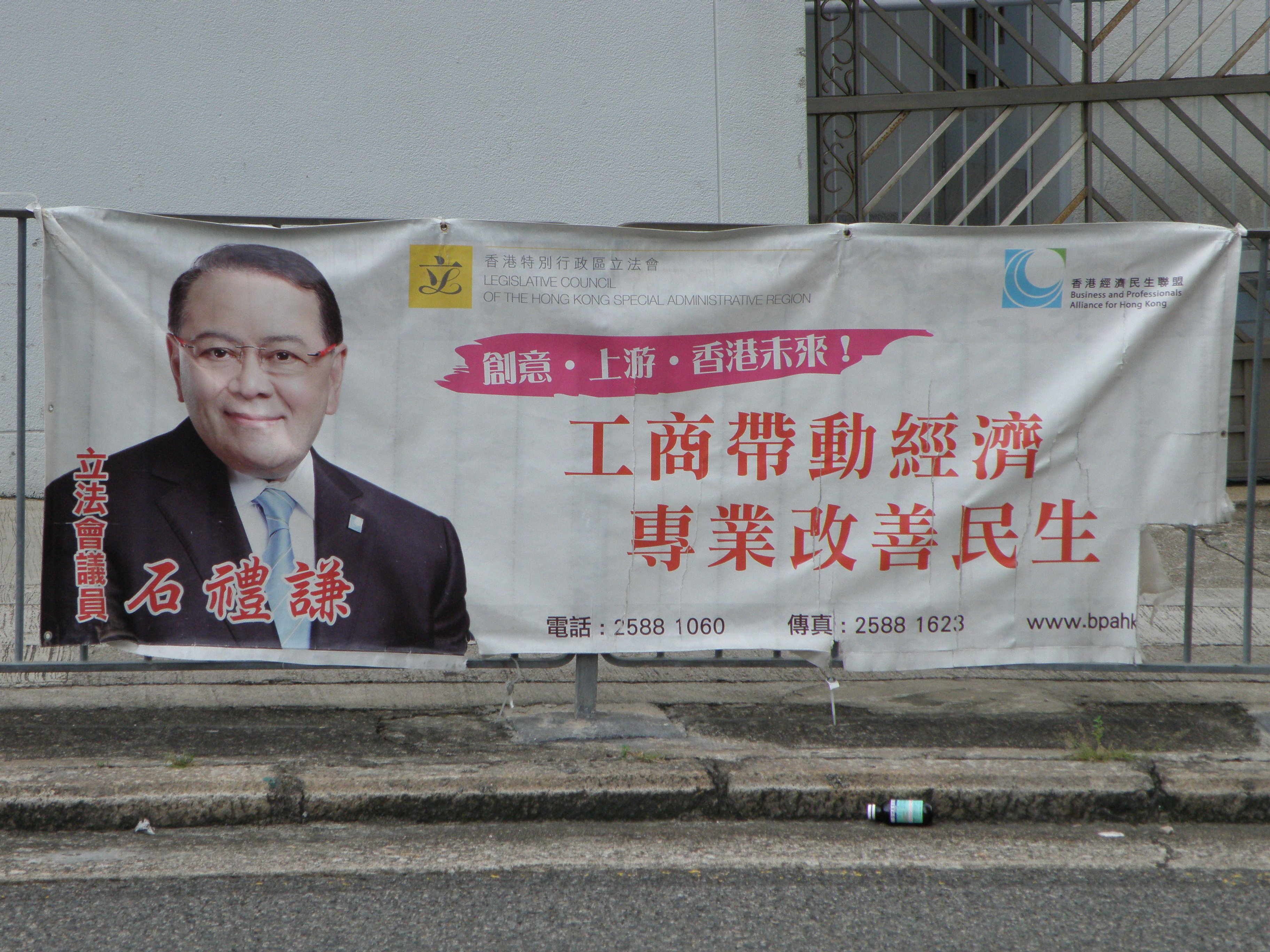 Abraham Shek Lai-him, member of the Legislative Council of Hong Kong.